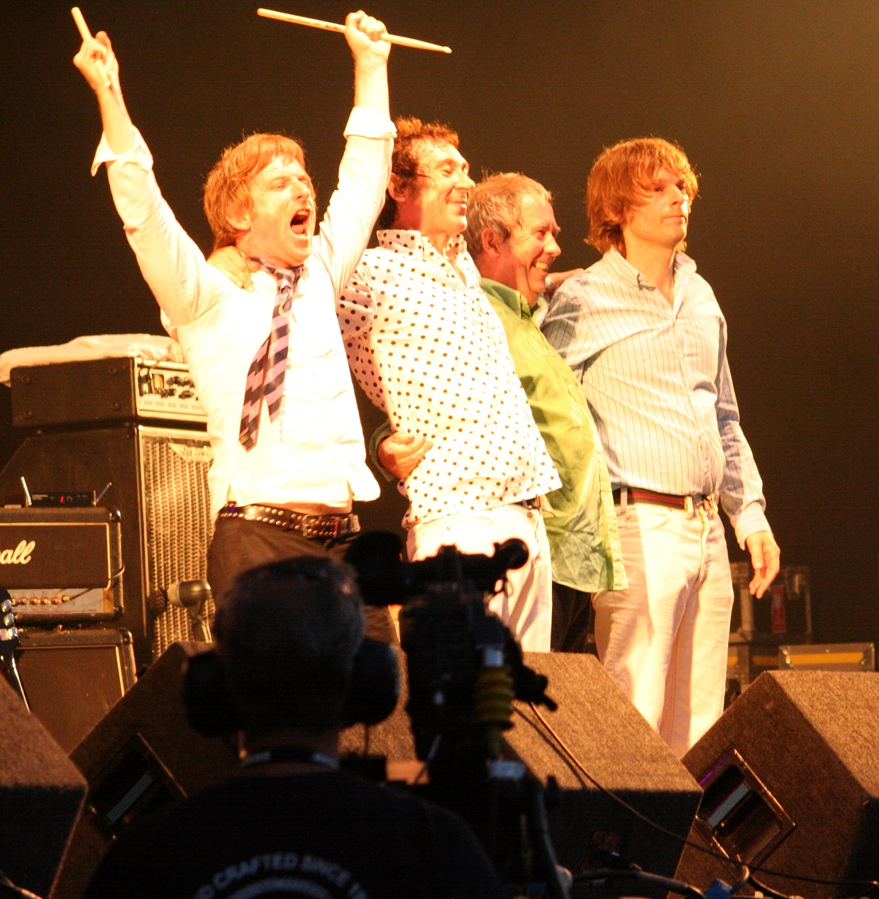 This an edited version of this image of the British power pop / punk rock band Buzzcocks.